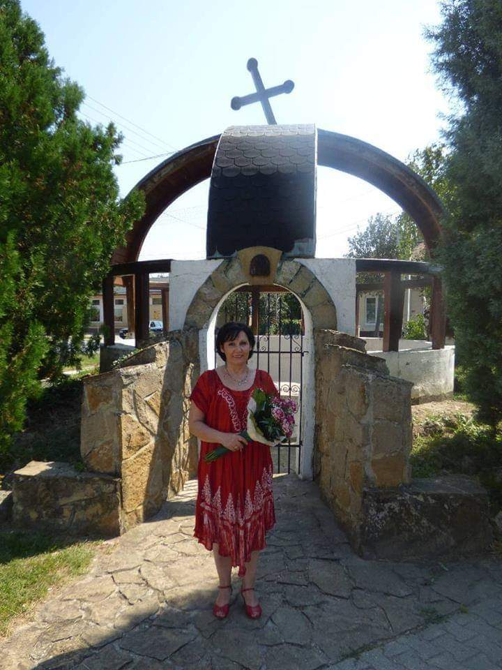 Éva Meister Hungarian actress in Ercsi, on 20 August 2018